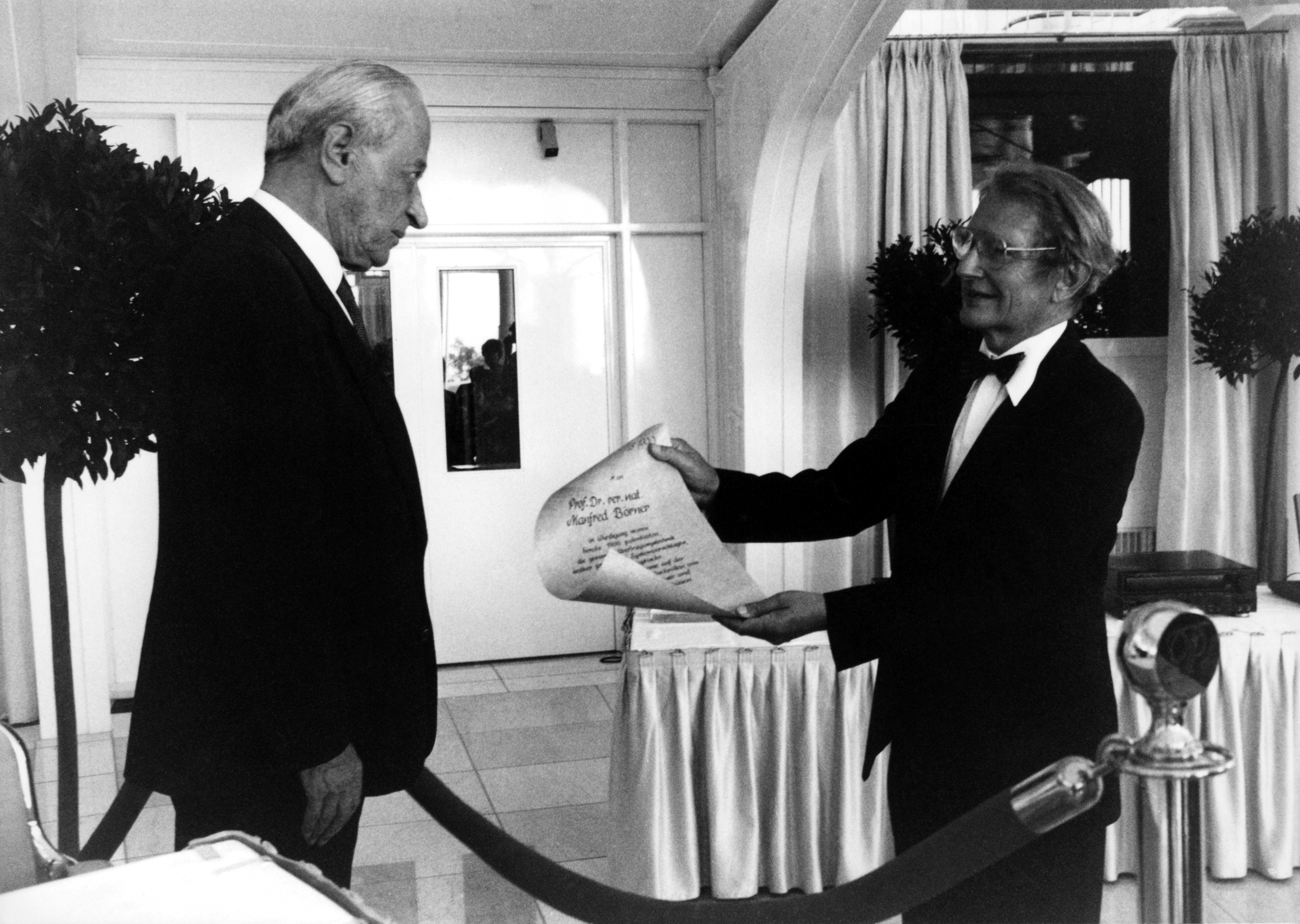 Manfred Börner 1990 Überreichung Eduard Rhein Preis